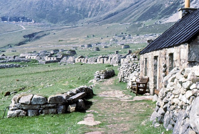 The Street, St Kilda You can see the quarry in the distance. It was used extensively by the military to provide materials for the building of their garrison on the island.